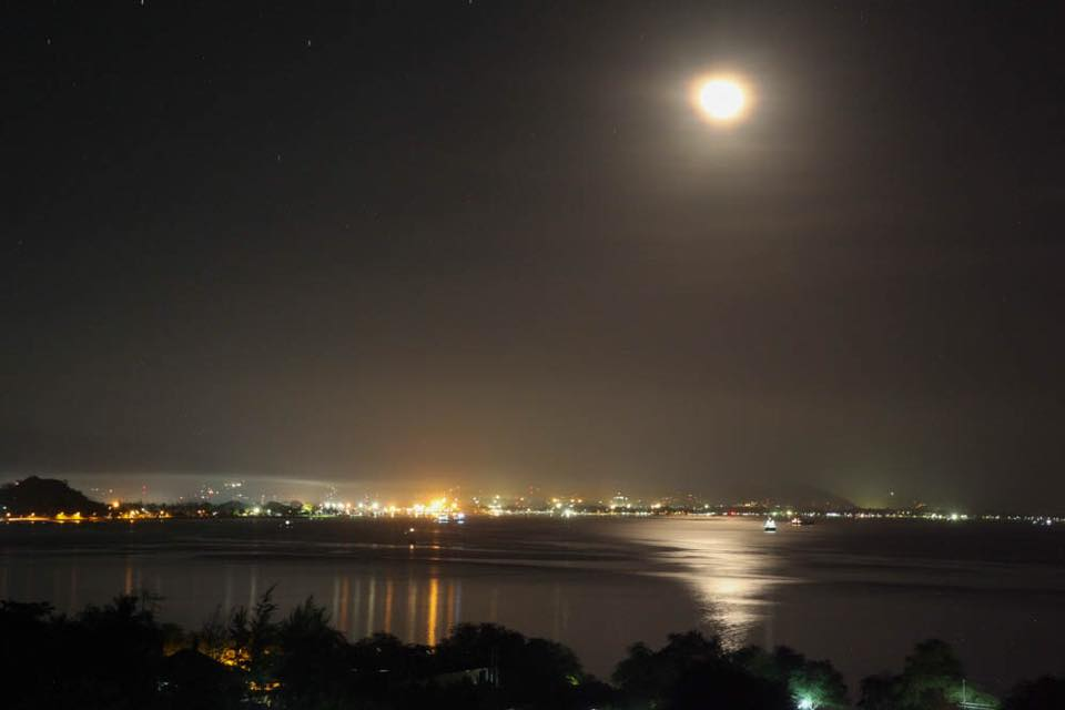 Moonlight over Dili.